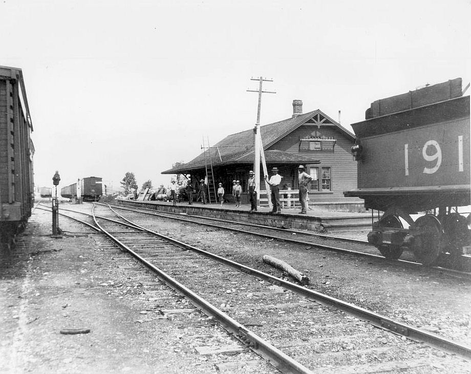 Flesherton, Ontario, Canada - C.P.R Station.